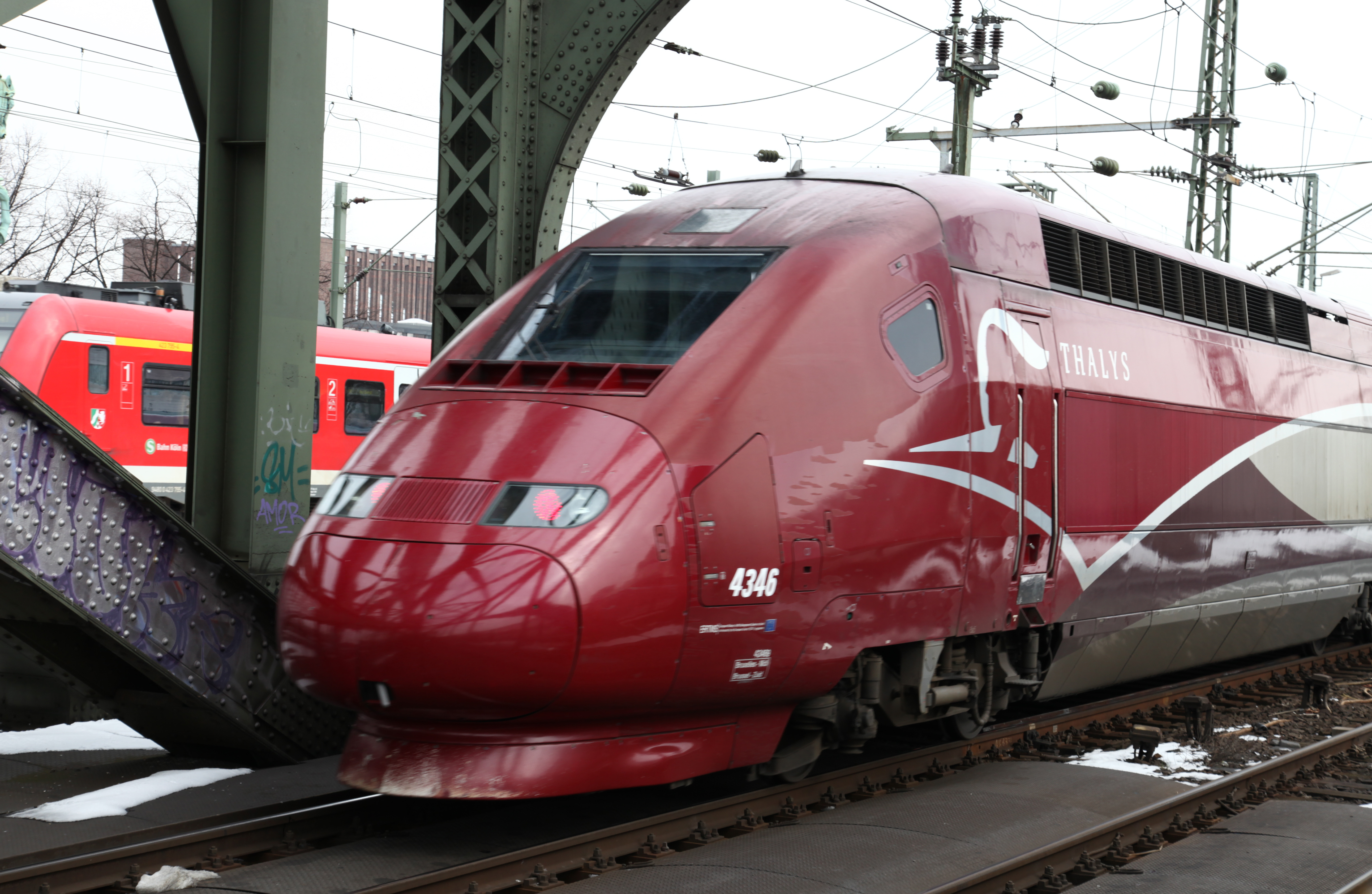 Thalys train number 4346 in Cologne on Hohenzollernbrücke